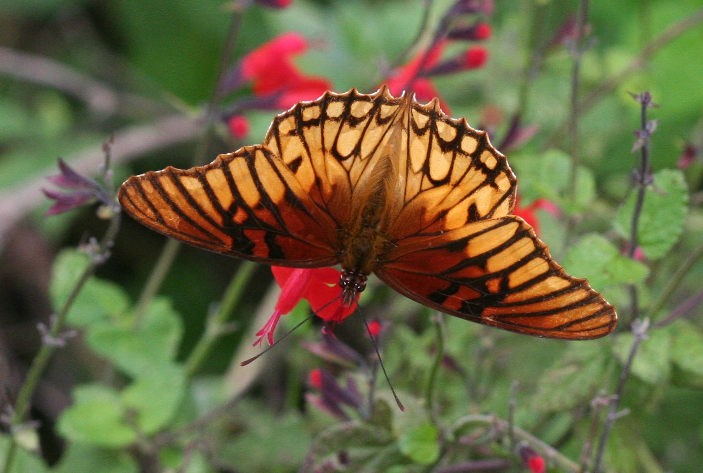 Taken at the NABA Park in Mission, Texas.